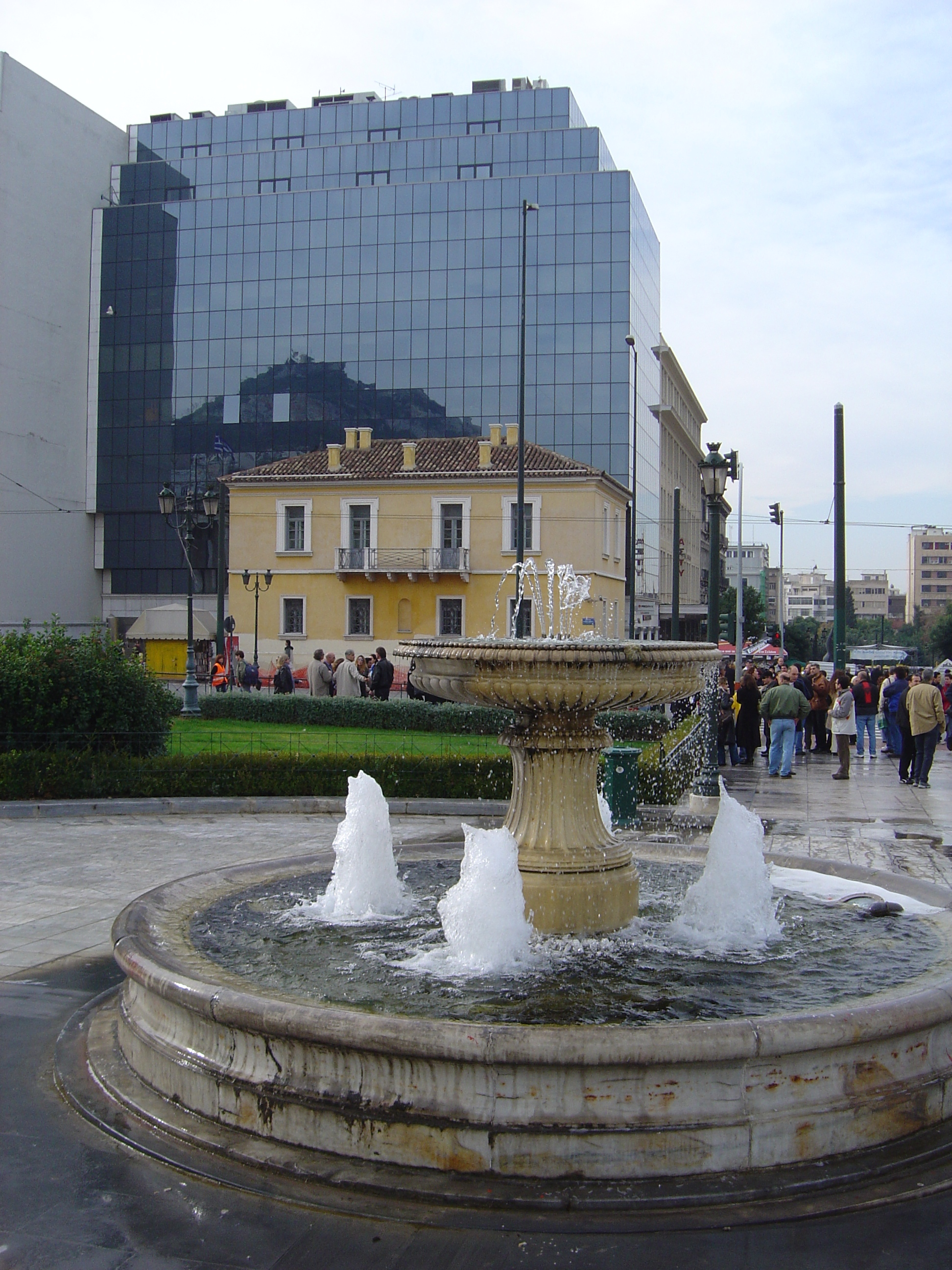 Dimitrios Rallis house